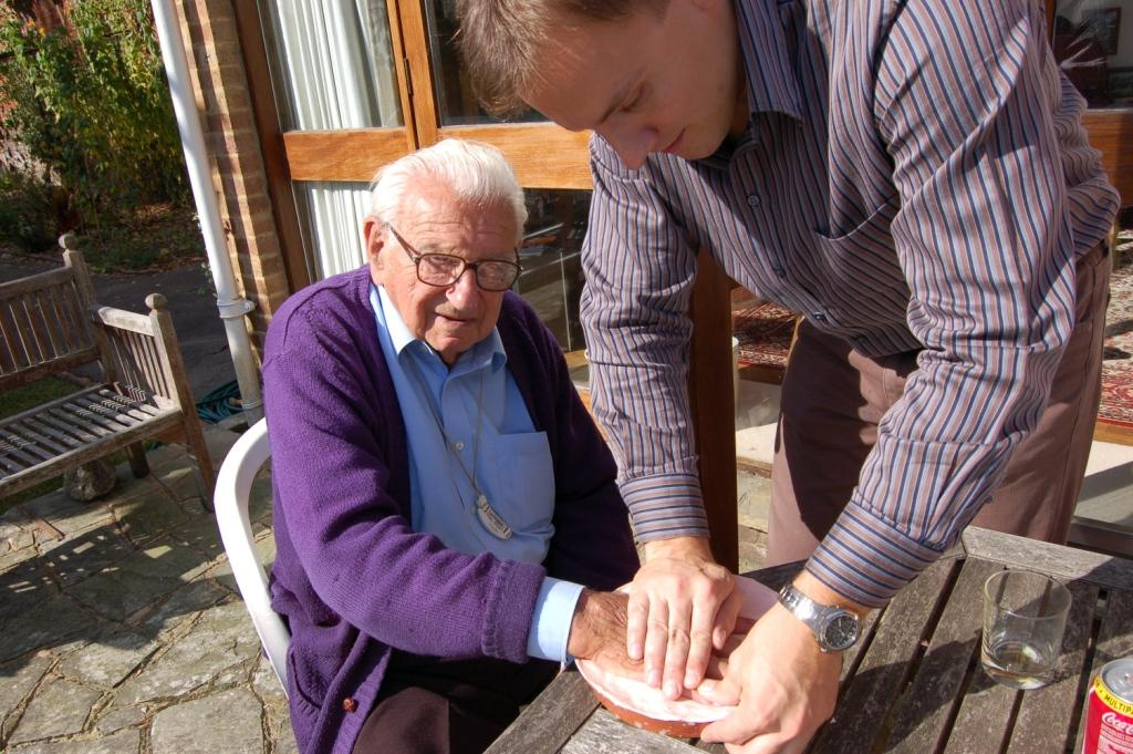 Sir Nicholas Winton is leaving his hand print to be immortalized in crystal glass.